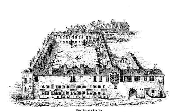 View from above of Gresham College, London, as it was in the eighteenth century